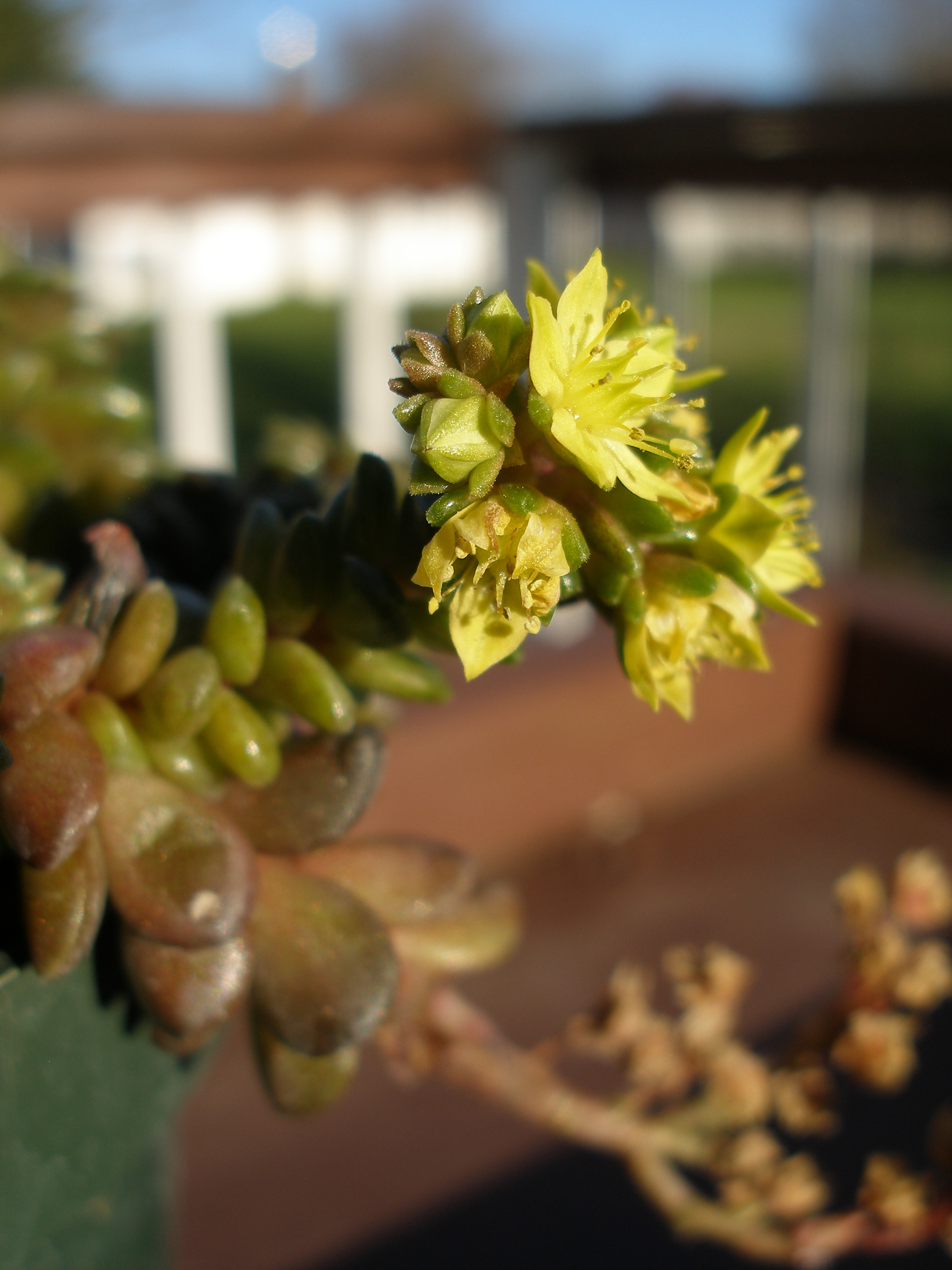 × Cremnosedum 'Little Gem' flower